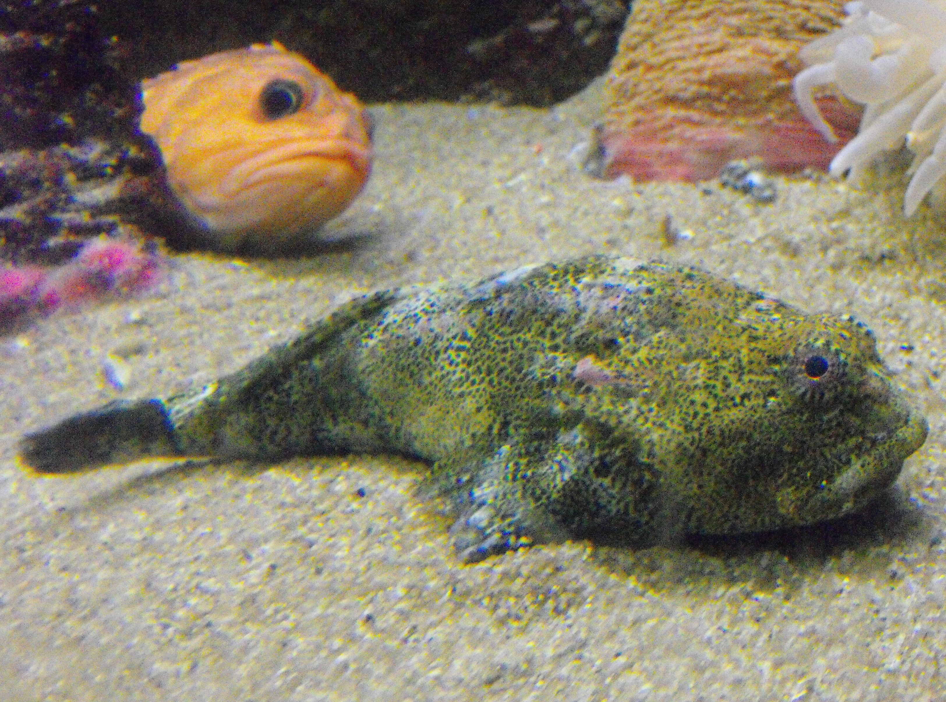 Enophrys bison trying to ignore a photobombing Sebastes at the Birch Aquarium in San Diego, California, USA.